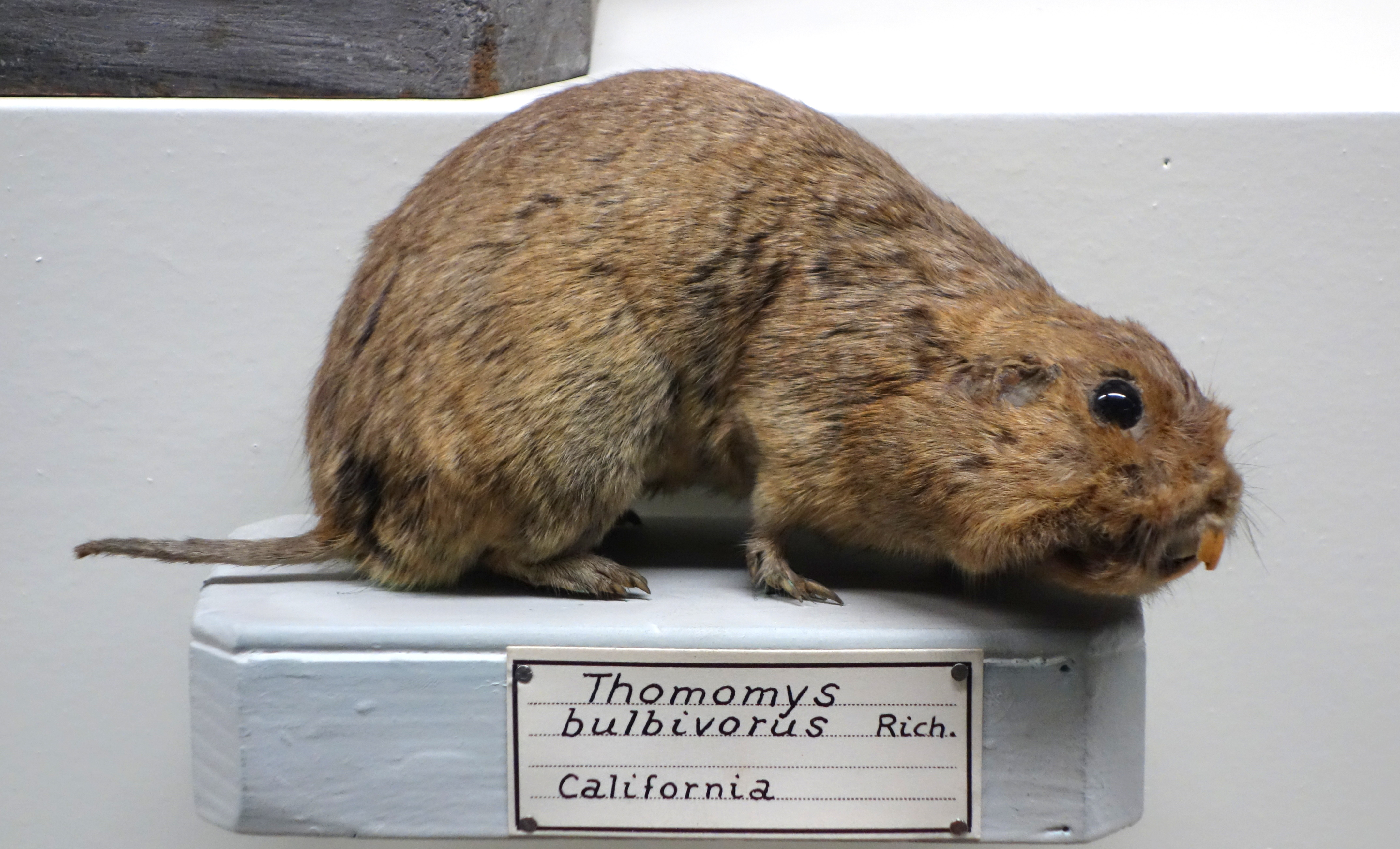 Exhibit in the Museo Civico di Storia Naturale di Genova, Via Brigata Liguria, 9, 16121, Genoa, Italy.